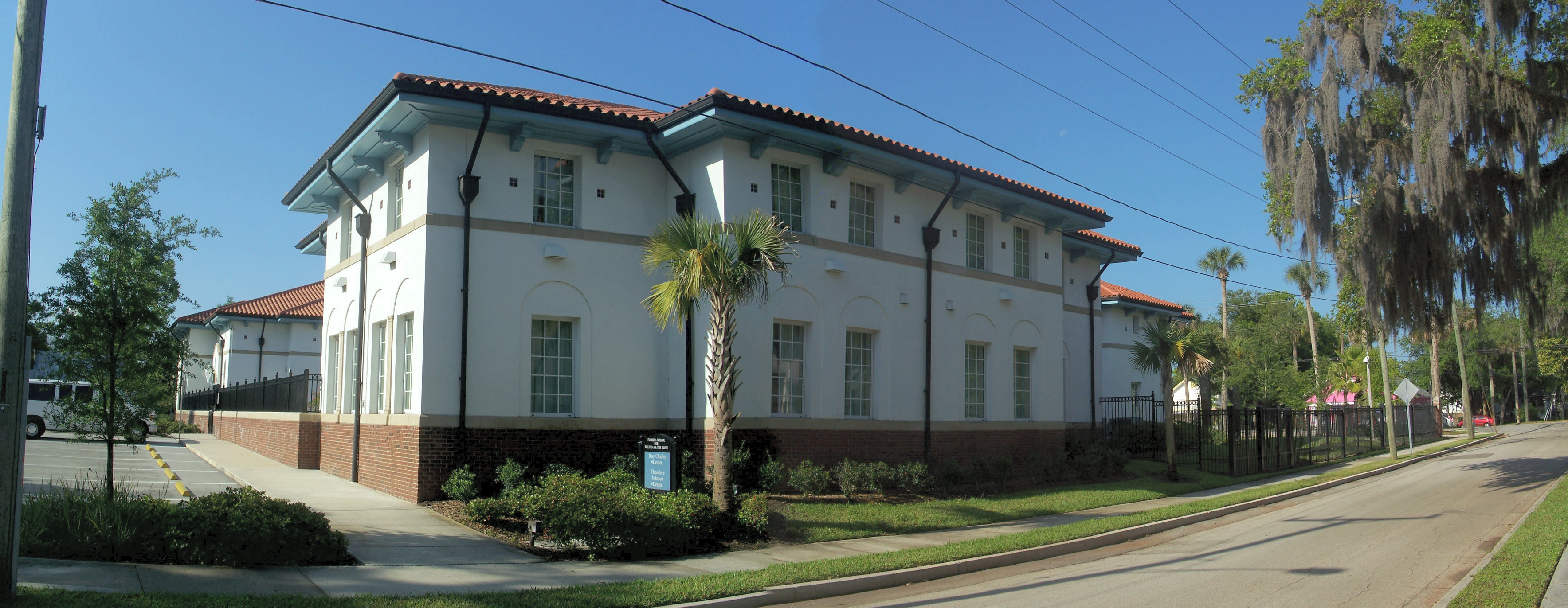 St. Augustine, Florida: Florida School for the Deaf and Blind. Panoramic view of the Ray Charles Center and the Theodore Johnson Center.